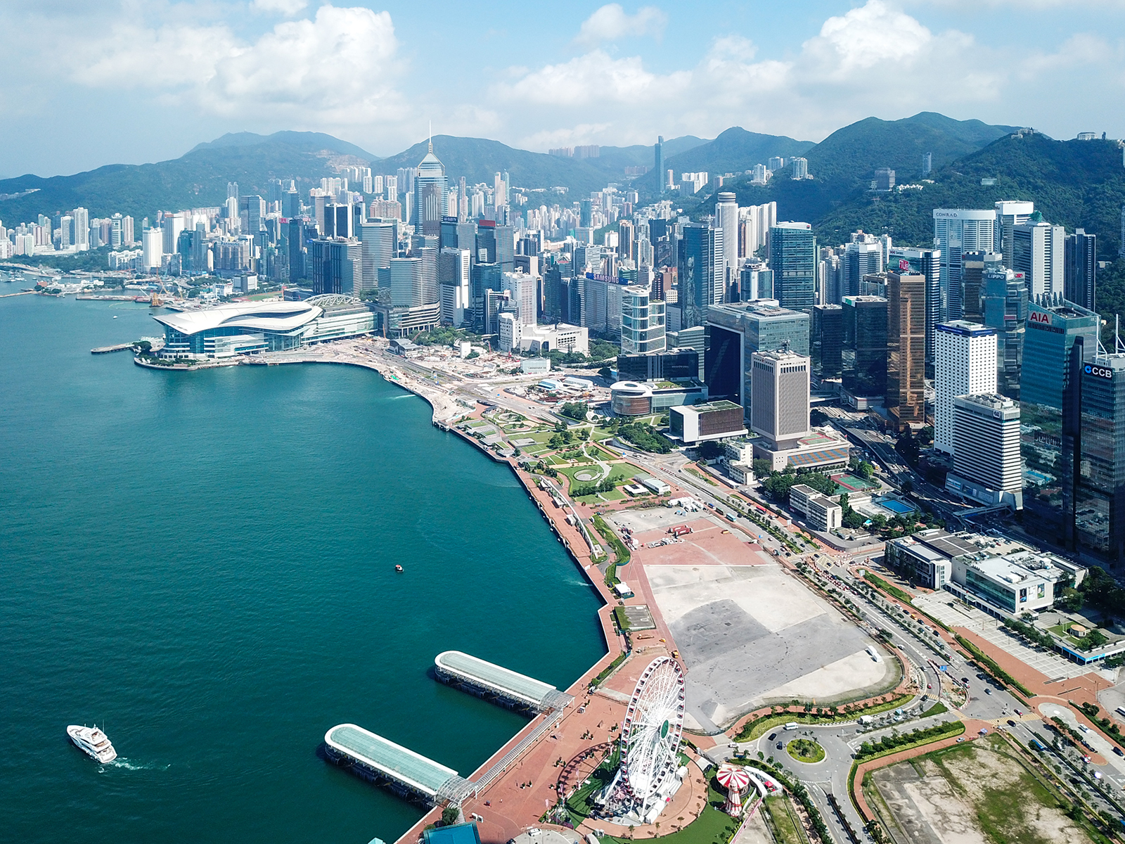 Central and Wan Chai Reclamation aerial view